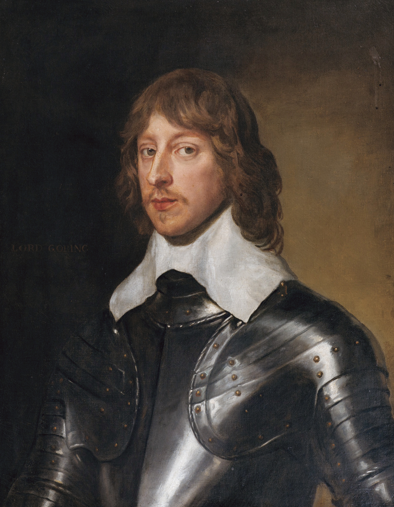 George, Baron Goring (1608-1657) oil on canvas 77.5x63 cm inscribed, centre left: Lord Goring